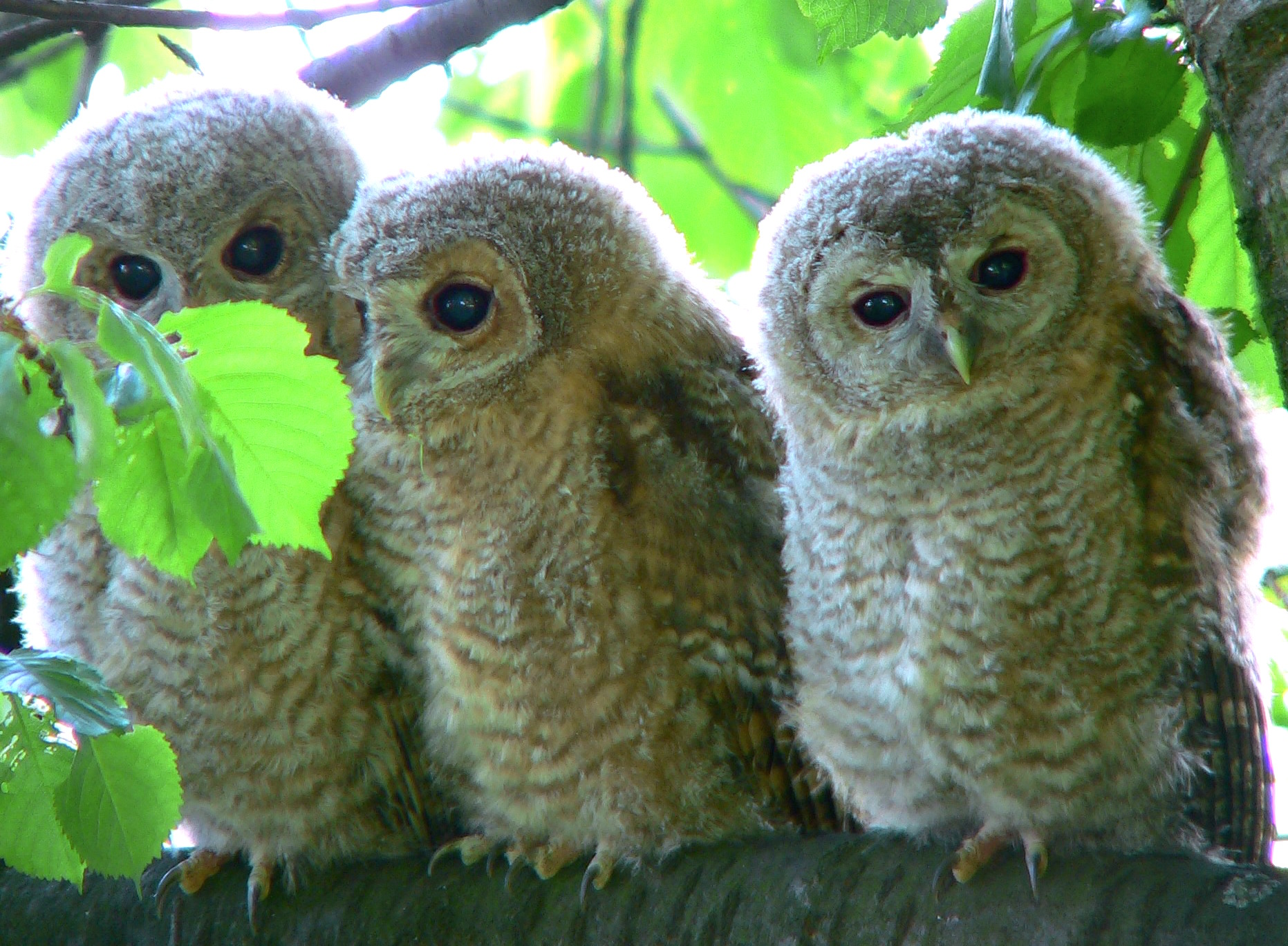 three young tawny owls (Strix aluco), surroundings of Warsaw, Poland